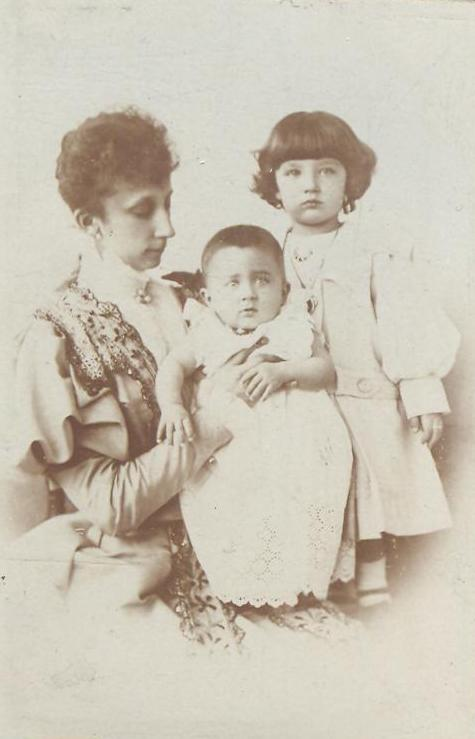 Marie Louise with Boris and Kiril, 1897.